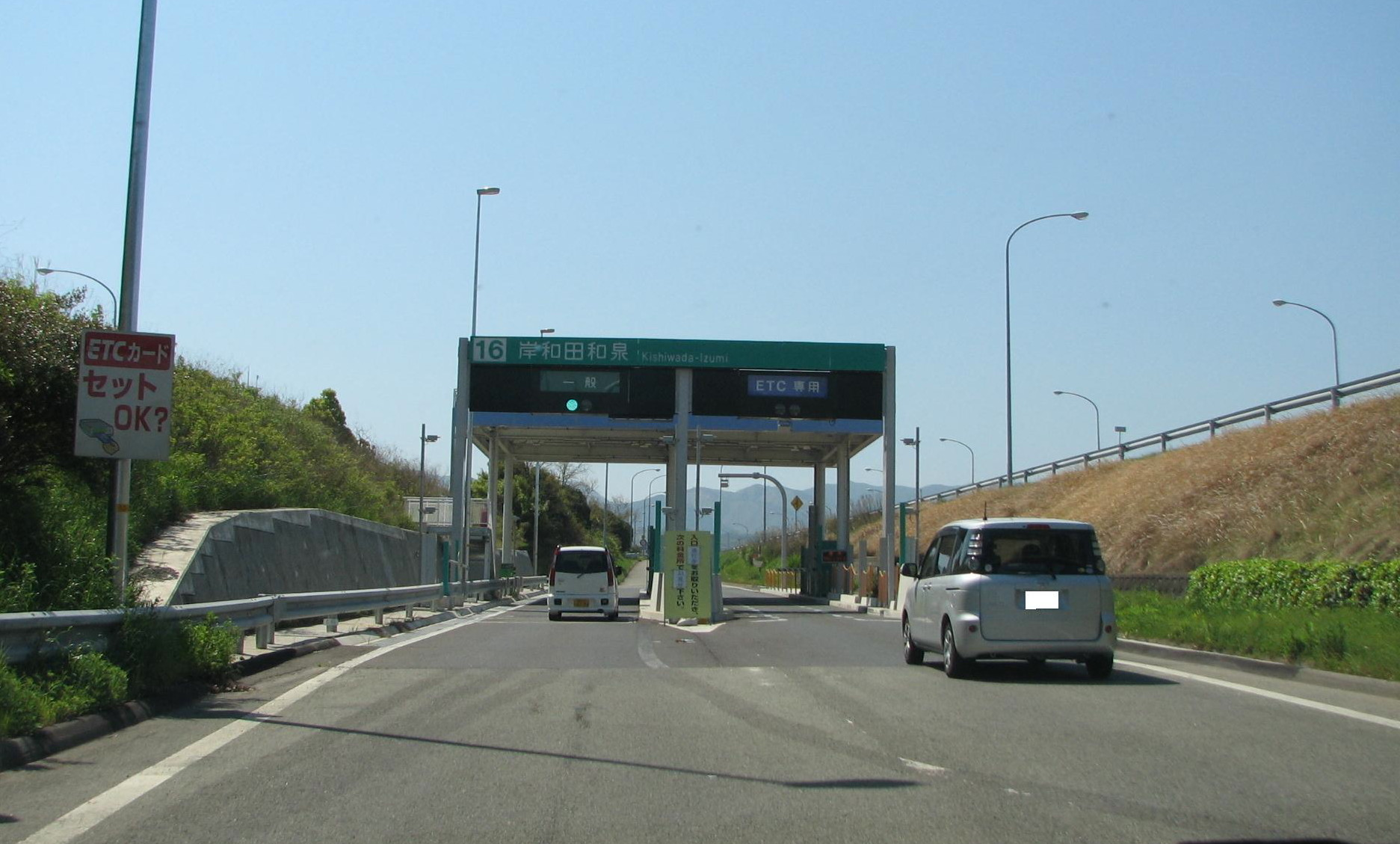 Kishiwada-Izumi IC tollgate